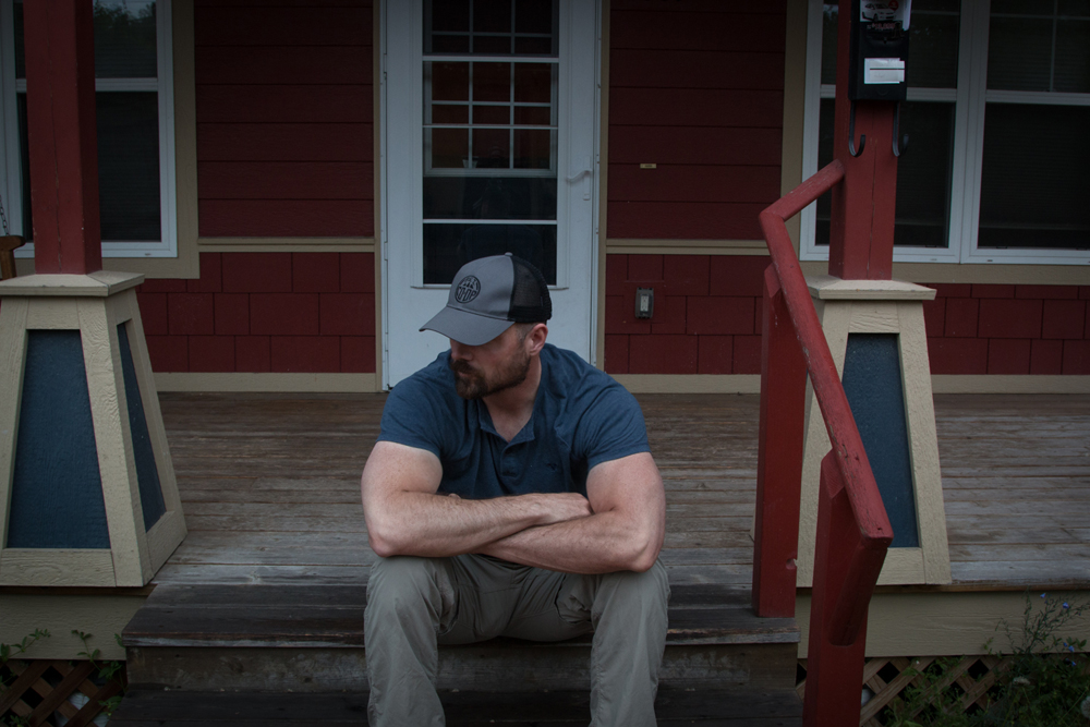 Writer Michael Hodges on a porch in Montana.